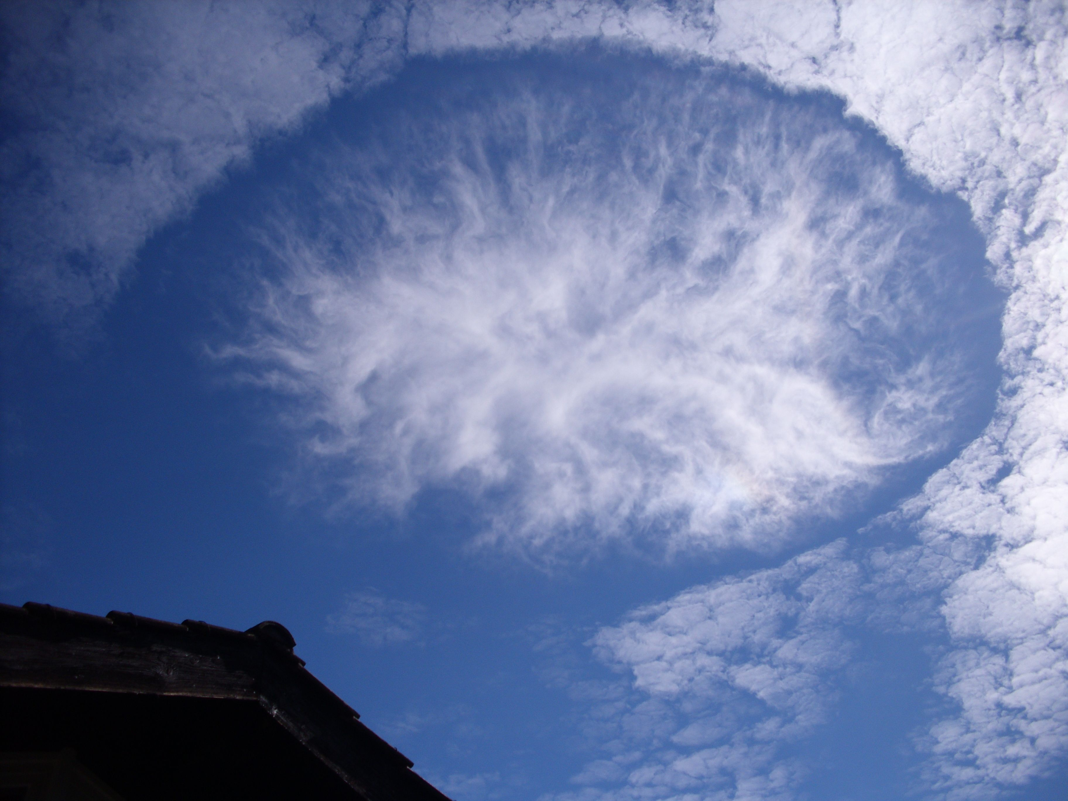 Fallstreak hole photographed in the south of Switzerland in September 2012.